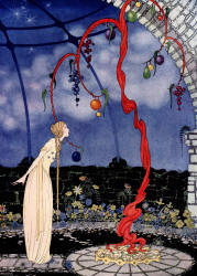 One of Sterrett's illustrations from her suite for Old French Fairy Tales (1920)